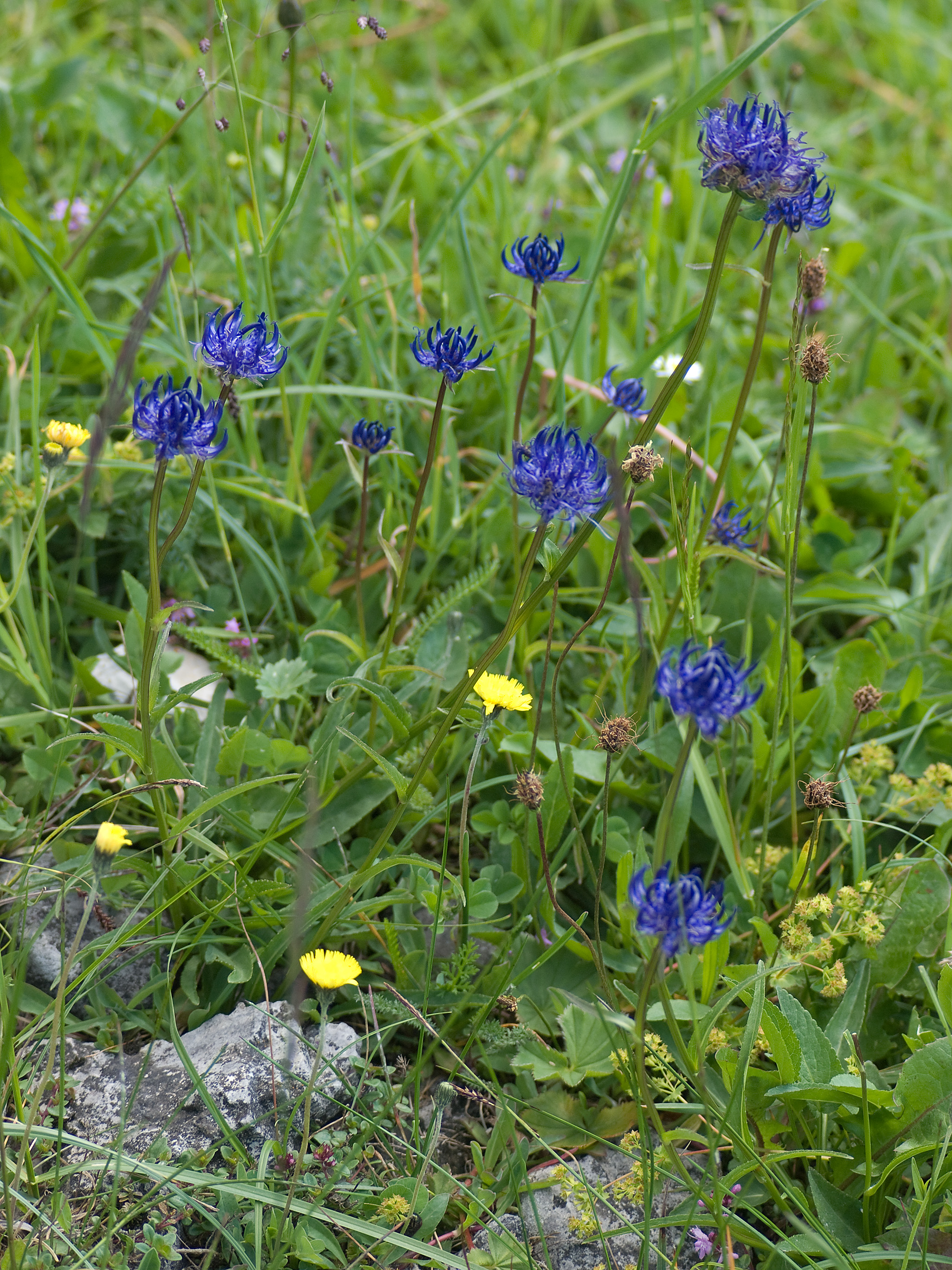 Phyteuma orbiculare; Picture taken near Ehrwald/Austria